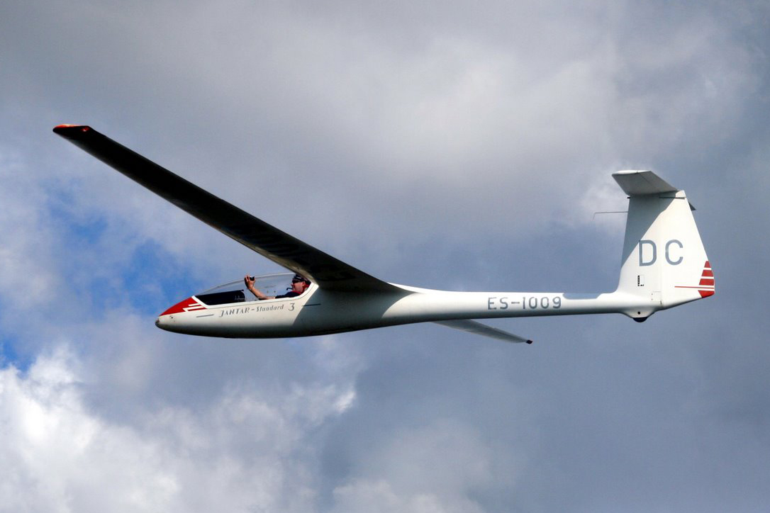 A close shot of a flying Jantar Standard 3